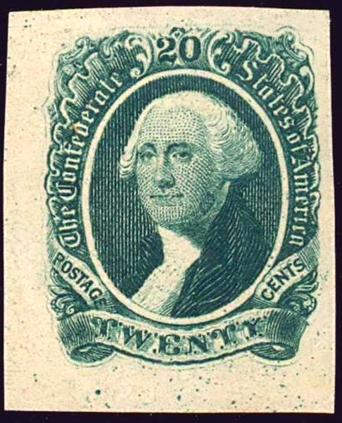 20 cent George Washington CSA stamp Category:United States history images